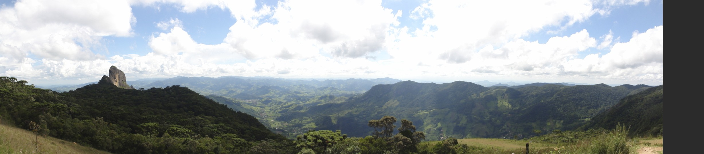 View from Pedra do Baú